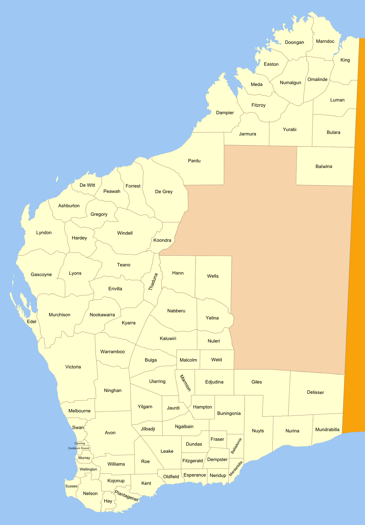 Map of land districts in Western Australia, as shown on old public domain 1909 map at the National Library. made from original svg See also: blank map for making locator maps